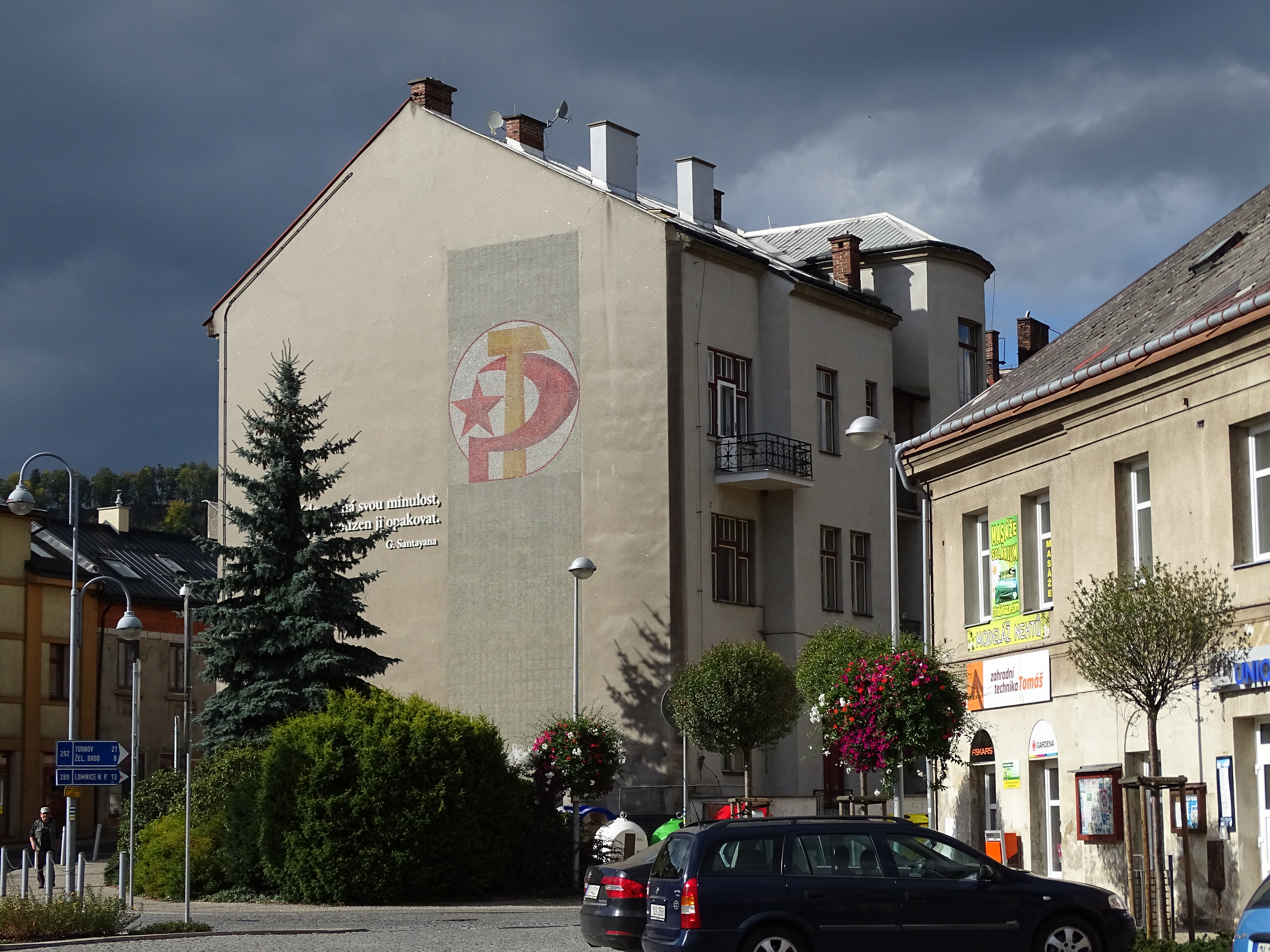 Semily, Semily District, Liberec Region, Czechia. Riegrovo náměstí, Tyršova 457.